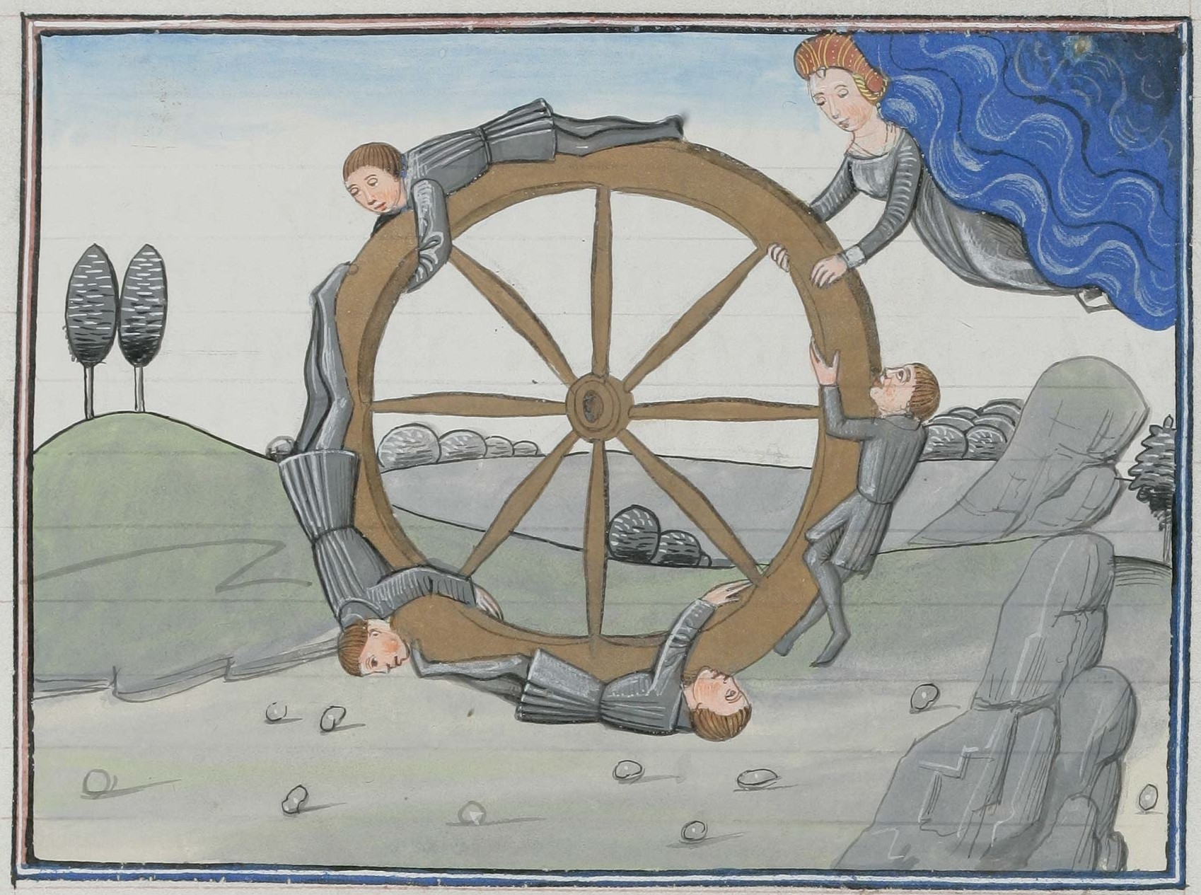 Miniatures cropped from the ~1460 manuscript containing Christine Pizan's 'Épître d'Othéa' (Epistle to Hector; sometimes known as the Book of Knighthood) - Cologny, Fondation Martin Bodmer, Cod. Bodmer 49, courtesy of the Virtual Manuscript Library of Switzerland